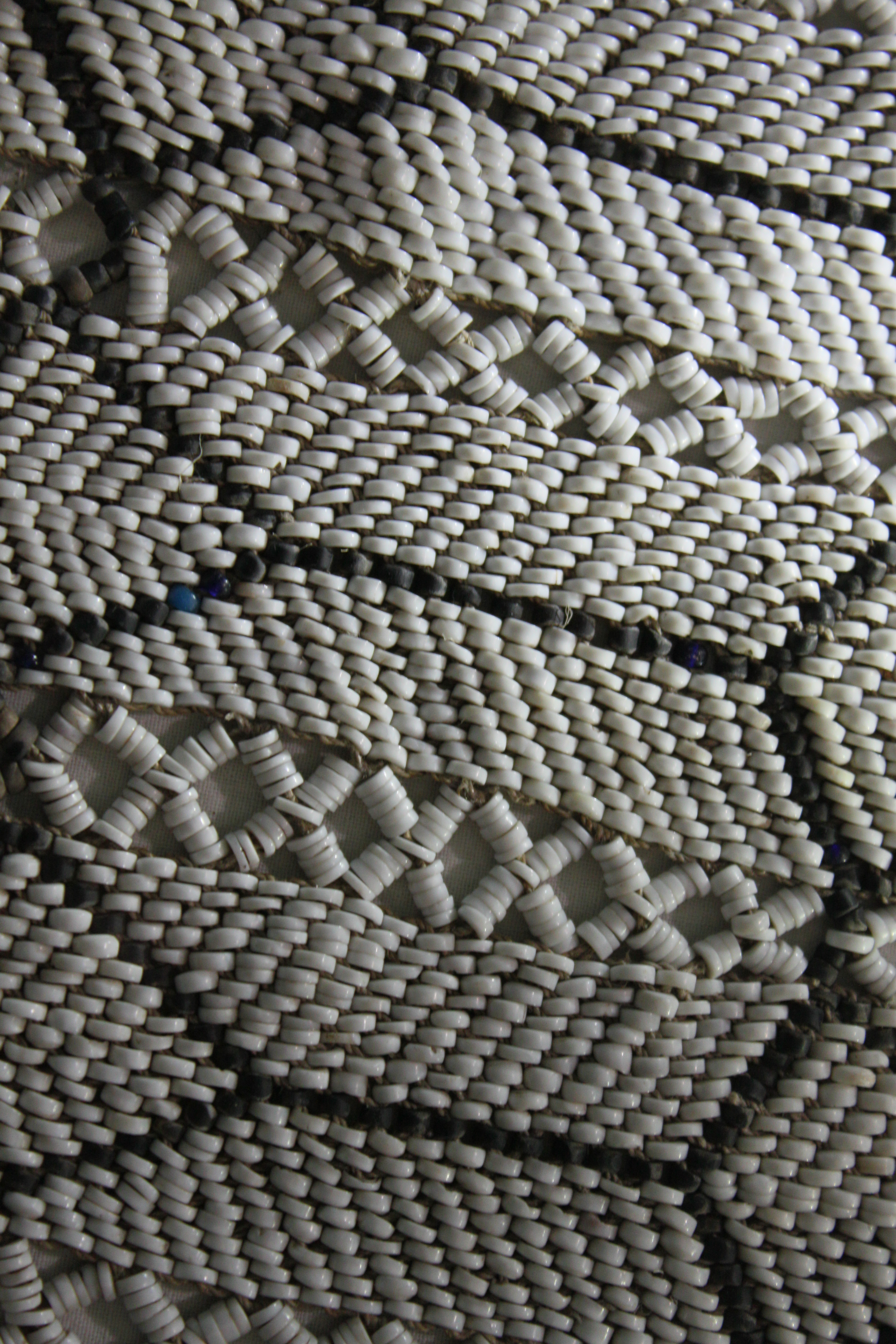 apron with snail-shell